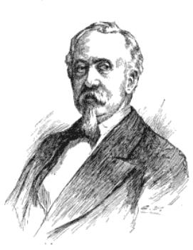 Judge John R. Brady